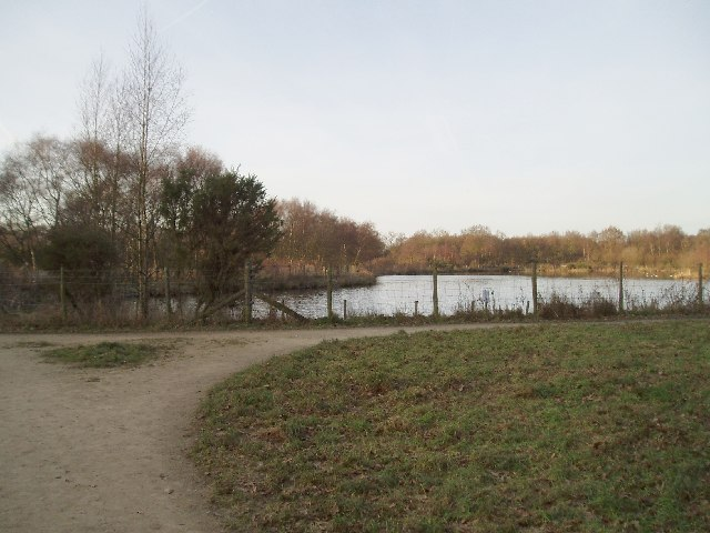 Black Lake, Lindow Common. The south end of the lake(Looking north) Was once a popular model boating lake, (That is about 50 years ago!!!)very few trees then,no fence and the edging to the lake,was old railway sleepers!!